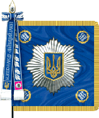 Flag of the Ministry of Internal Affairs of Ukraine (avers)